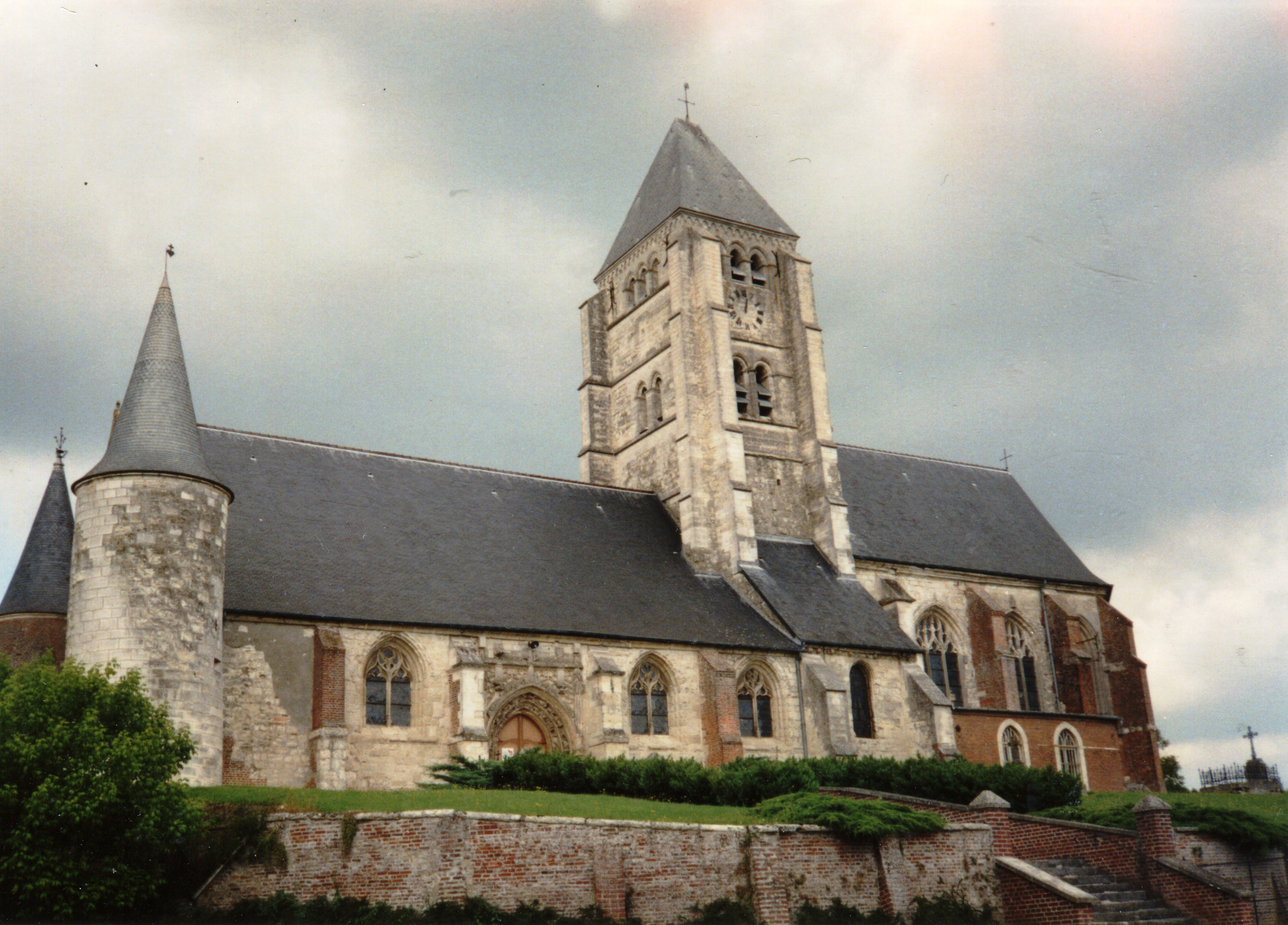 Église Saint-Martin de Chaourse en 1991